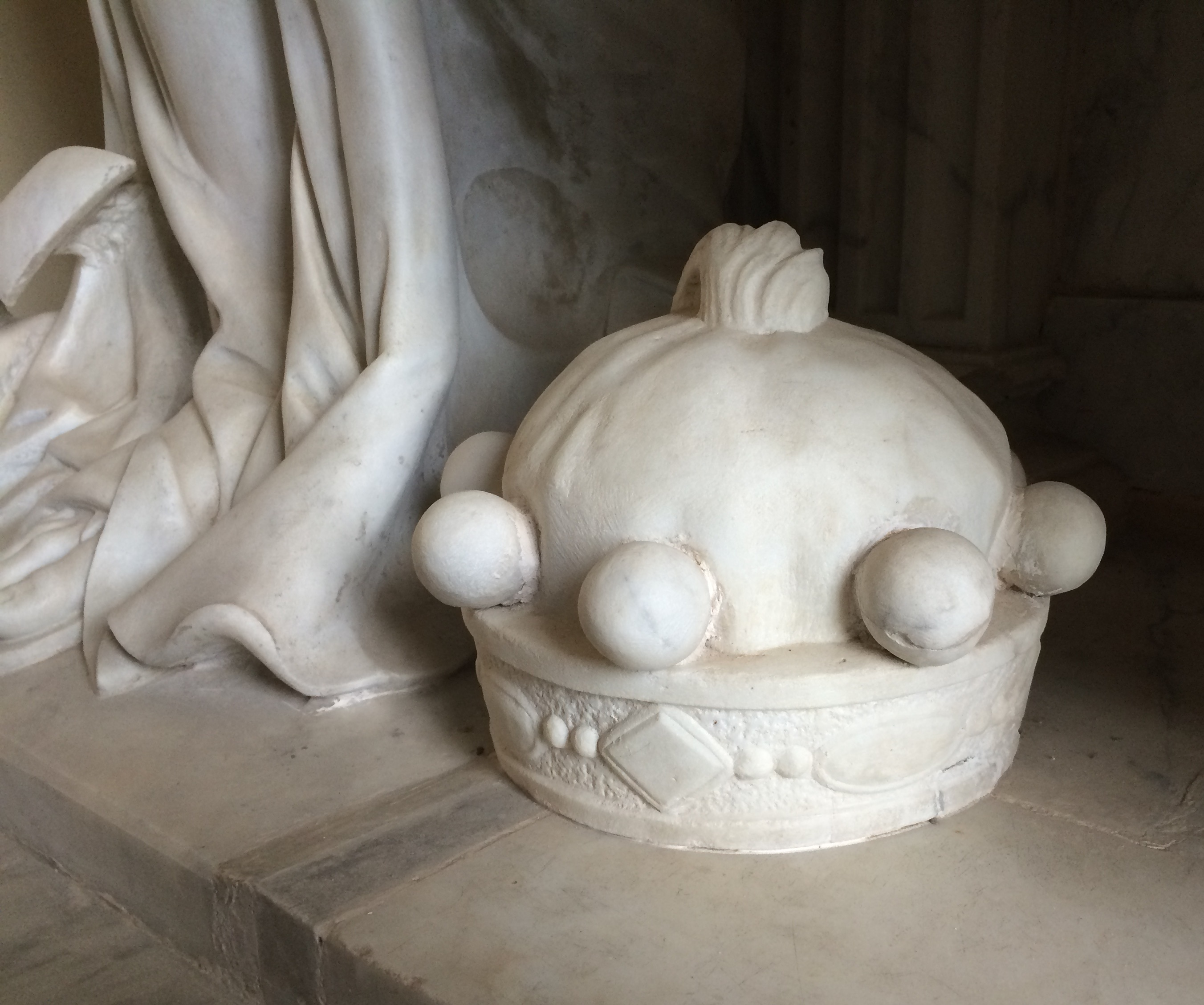 St Mary Magdalene, Croome, Worcs: Baron's coronet on the memorial to John Coventry, 4th Baron Coventry (1654–1687)